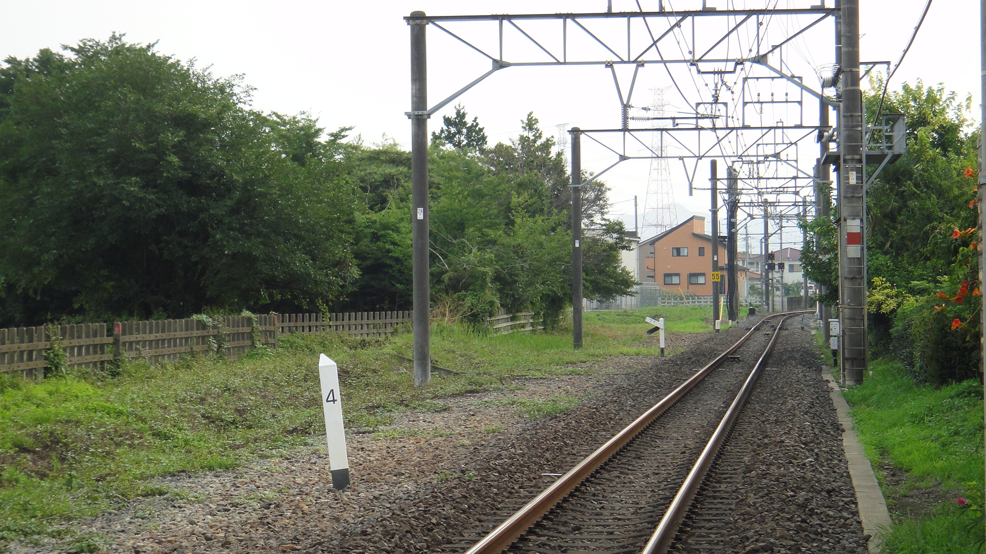 Trackbed of the site of the former Nishi-Oya Junction on the Tobu Ogose Line. A freight spur leading to the Nippon Cement plant formerly branched off to the left before closing in 1984.